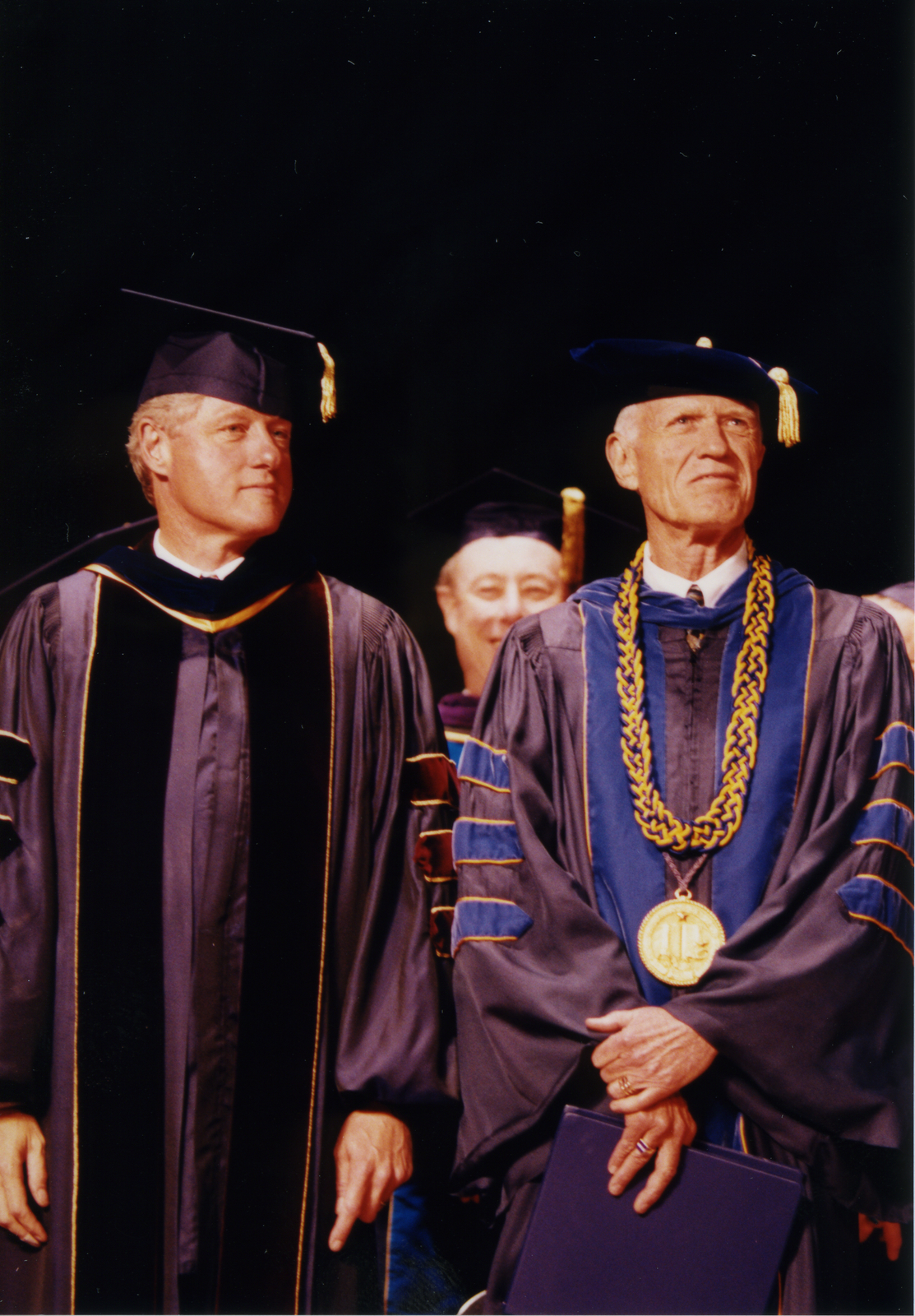 President Bill Clinton with Chancellor Charles E. Young at UCLA's 75th anniversary convocation in Pauley Pavilion on the UCLA campus, May 1994.